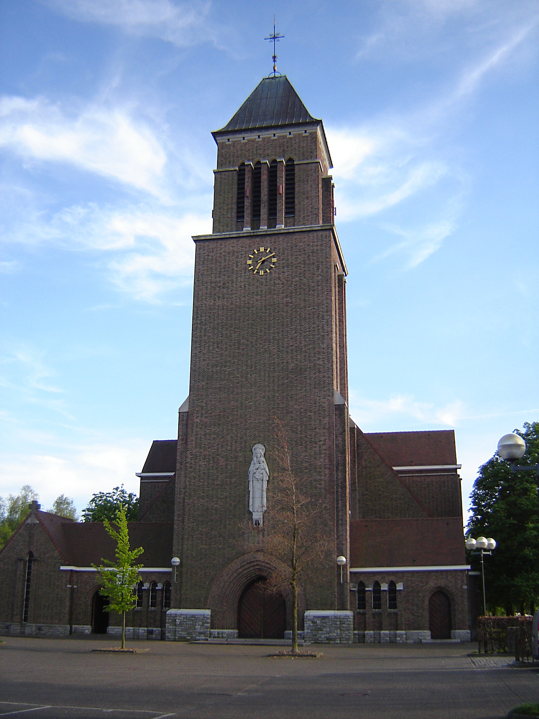 Church of Our Lady of the Rosary in Flora, Merelbeke. Merelbeke, Gent, East Flanders, Belgium